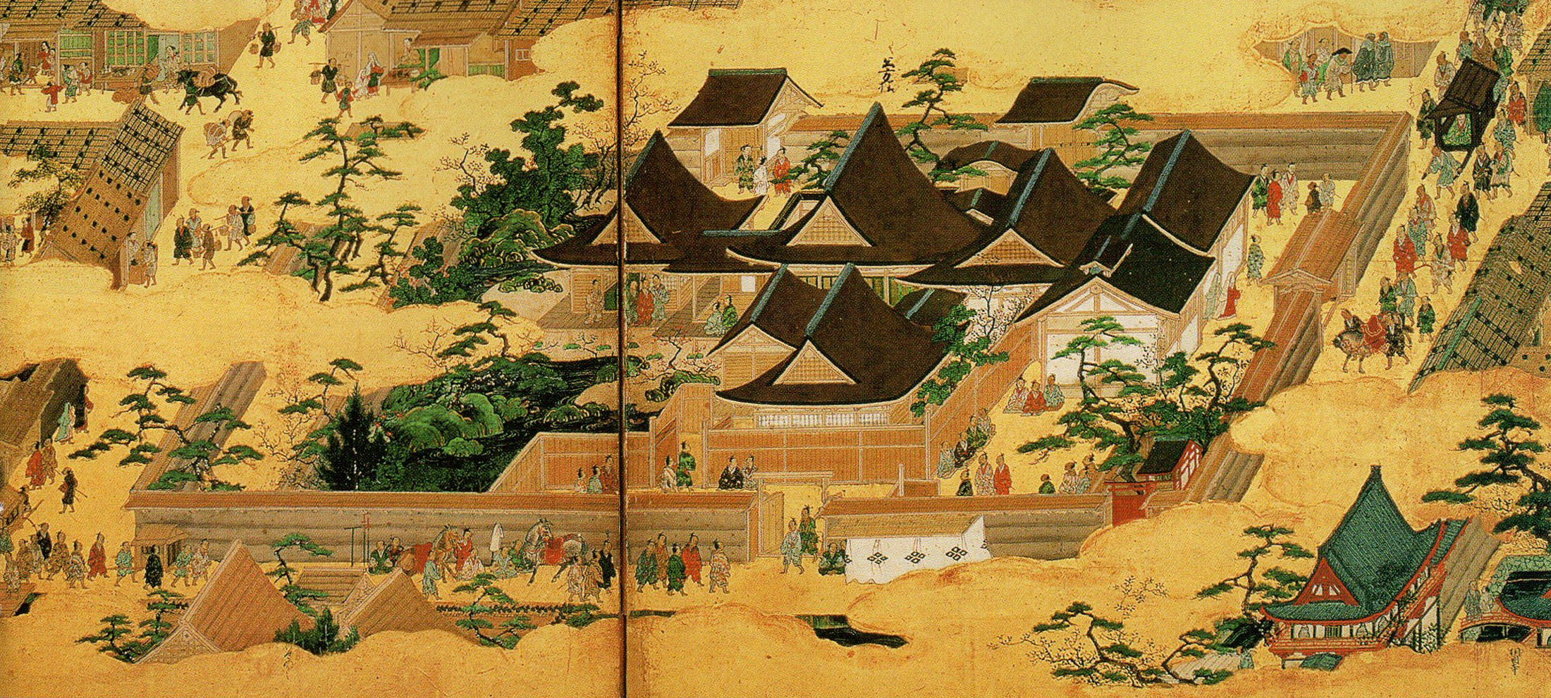 “Hana-no-Gosho” (花の御所, Flower Palace) depicted in“Rakuchū-Rakugai Zu Uesugi-bon Tōban”. The ensuing period of Ashikaga rule (1336–1573) was called Muromachi from the district of Kyoto in which its headquarters – the Hana-no-gosho – were located by third shōgun Ashikaga Yoshimitsu in 1378.